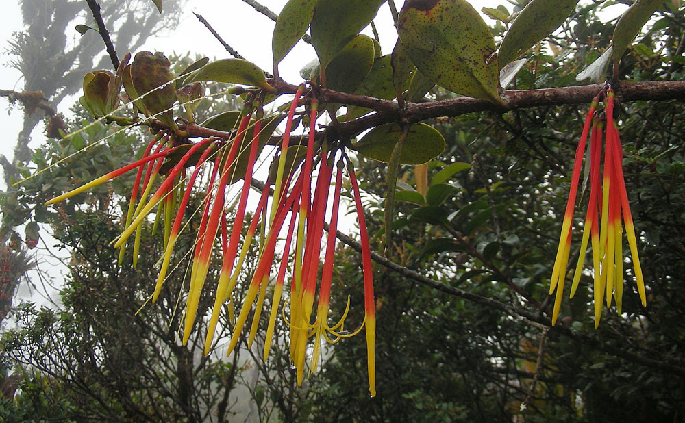 A hemiparasite of the high mountain paramos, from Colombia to northern Peru. Photo from 2400 m. elevation in the Condor Range, Peru--Ecuador border. In context at